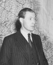 Duncan Sandys MP